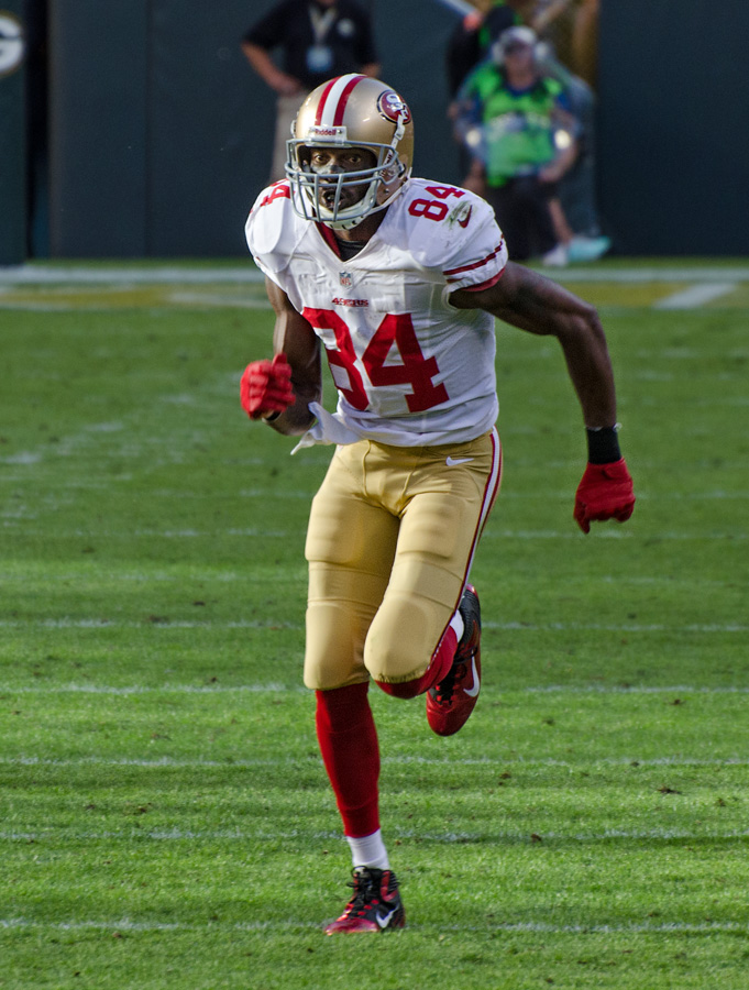 San Francisco 49ers vs. Green Bay Packers at Lambeau Field on September 9, 2012. Photo by Mike Morbeck.